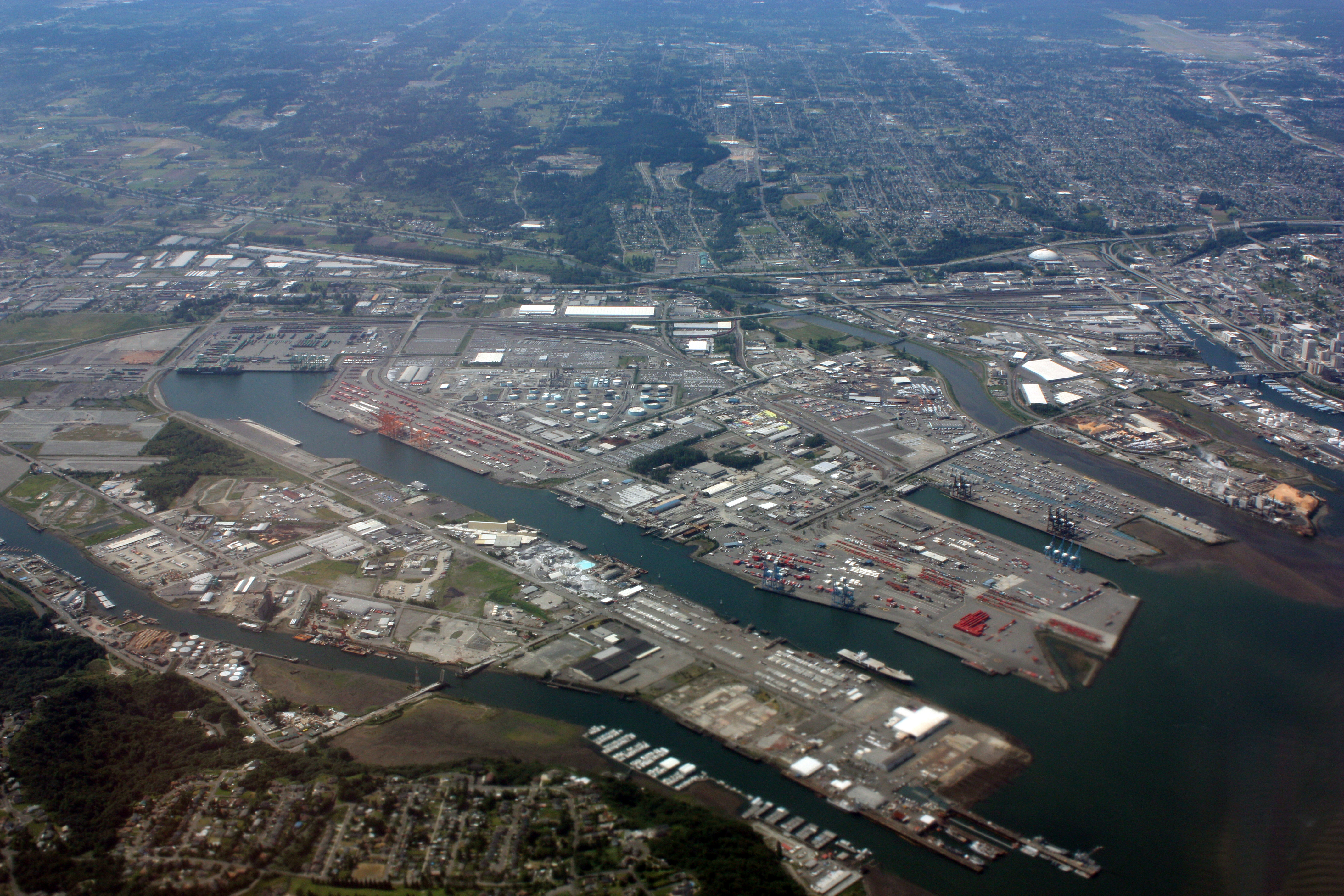 Port of Tacoma with Commencement Bay (lower right); Puyallup River (above center)